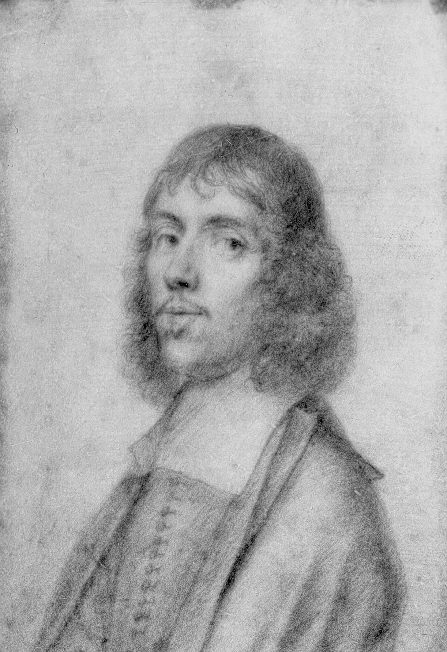 Jean-Guillaume Carlier (active c. 1660-1675), Portrait of Lambert Pietkin, canon of Saint-Martin's Church and director of music of Liège Cathedral (collection Cabinet des estampes et des dessins de la ville de Liège, now part of the Musée des Beaux-Arts, Liège, Belgium)